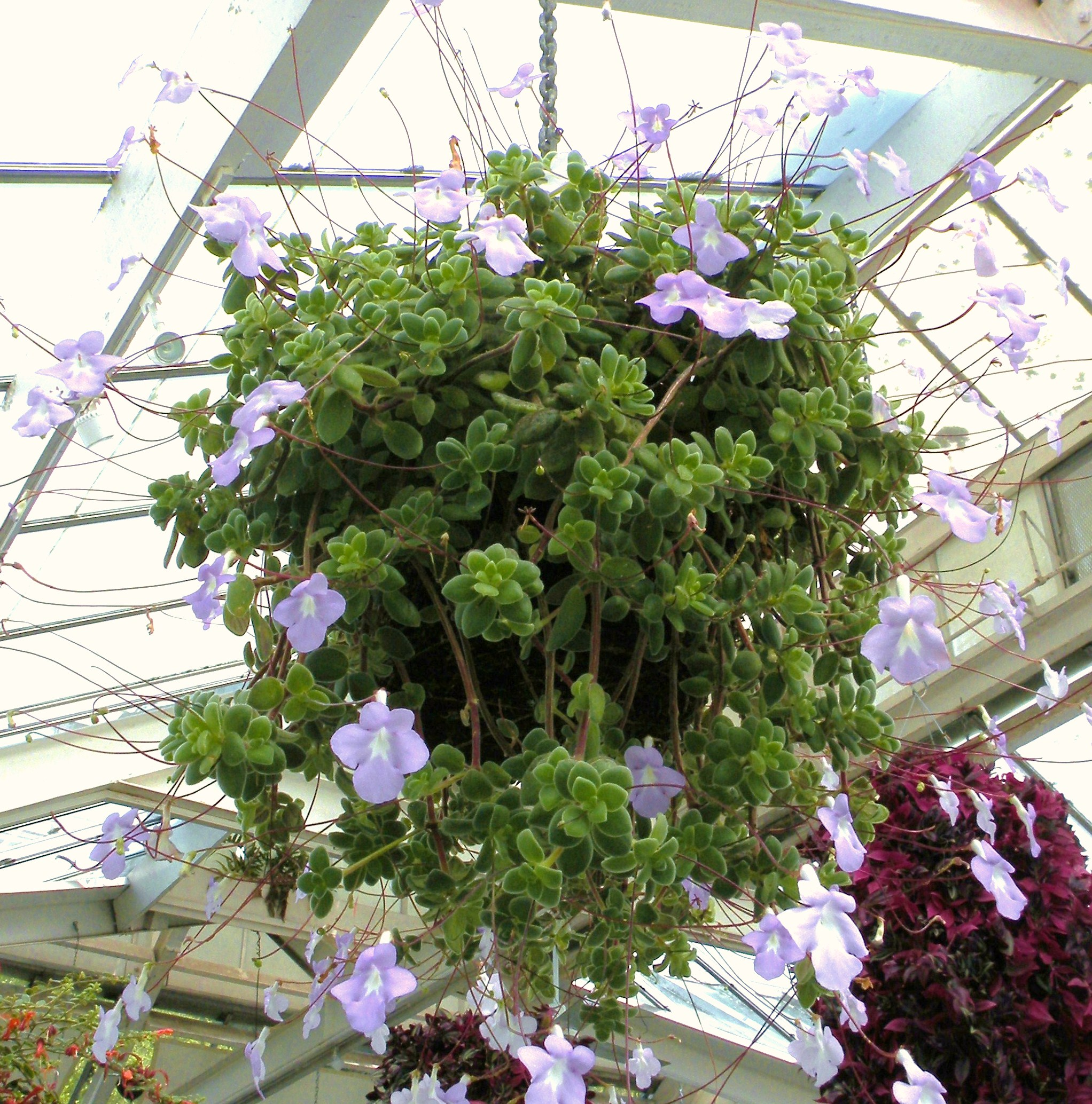 Streptocarpella in a hanging basket - at Wellington Botanic Gardens, New Zealand